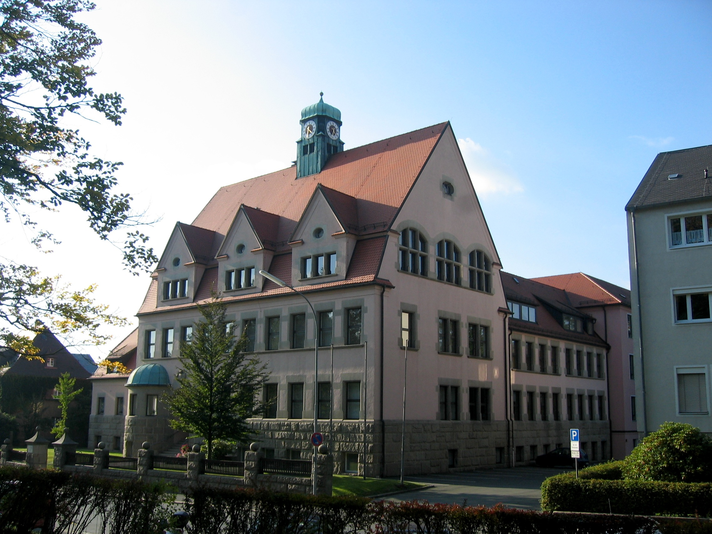 High School of Münchberg